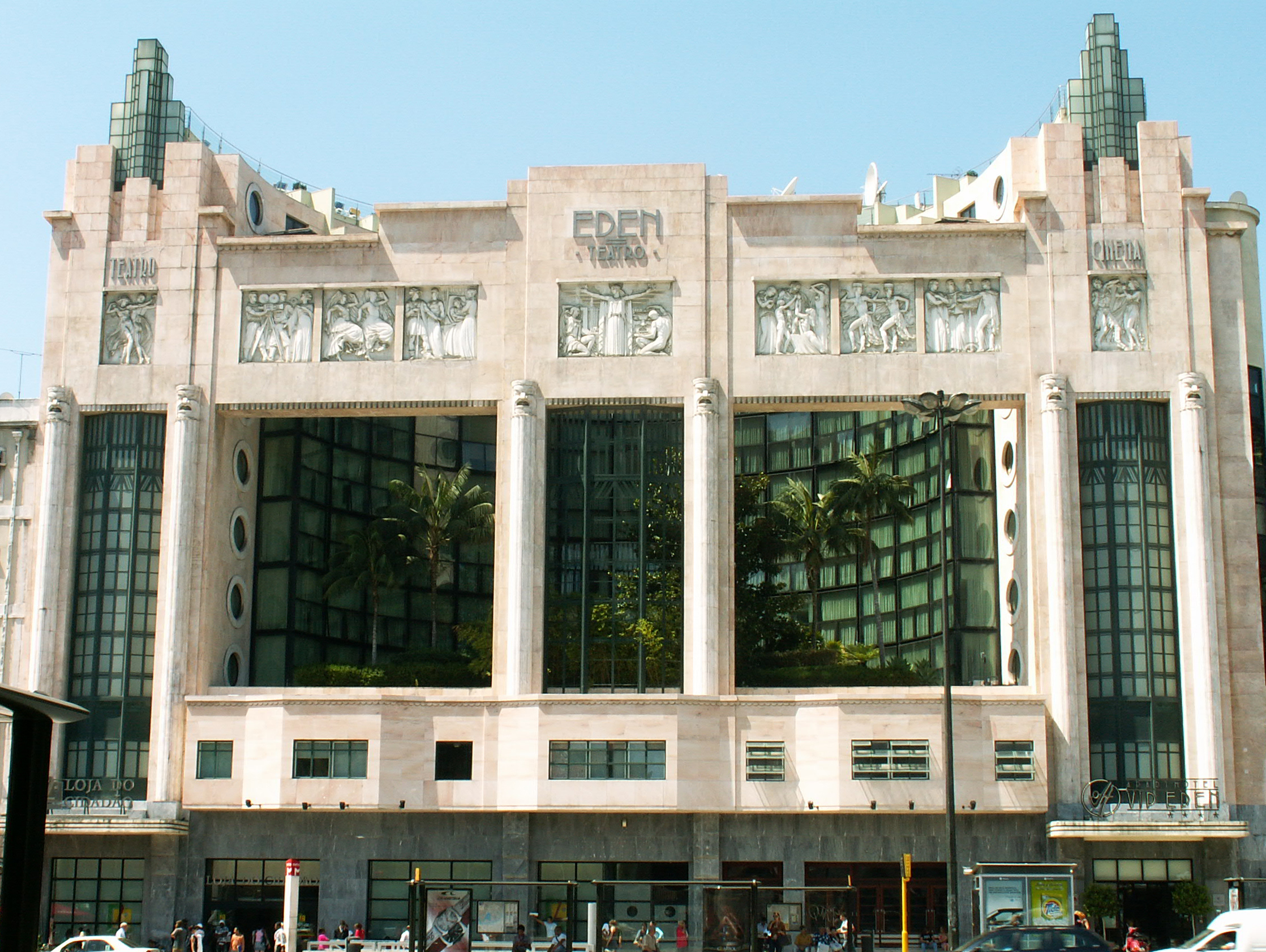 This file was uploaded for Wiki Loves Monuments in Portugal with the unique identifier 71824.